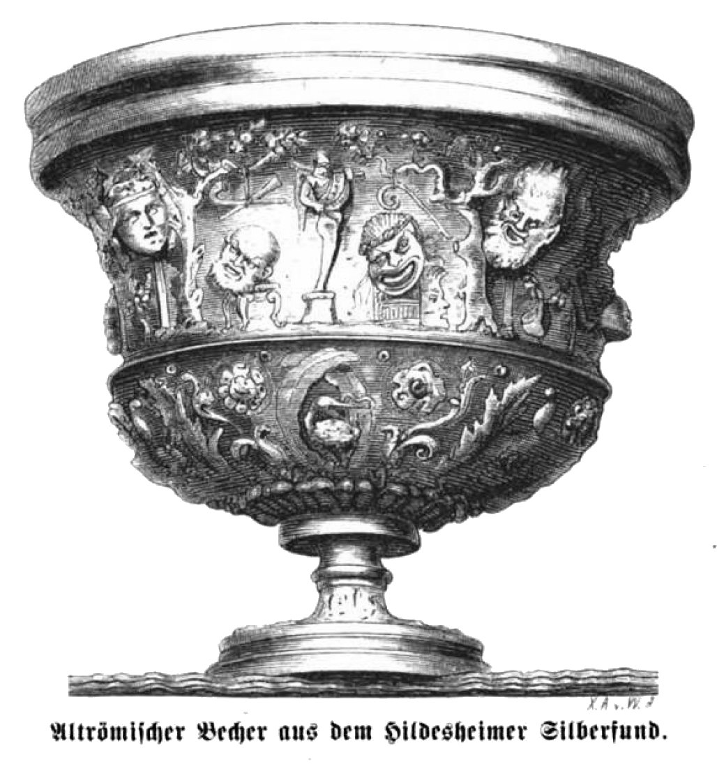 no caption